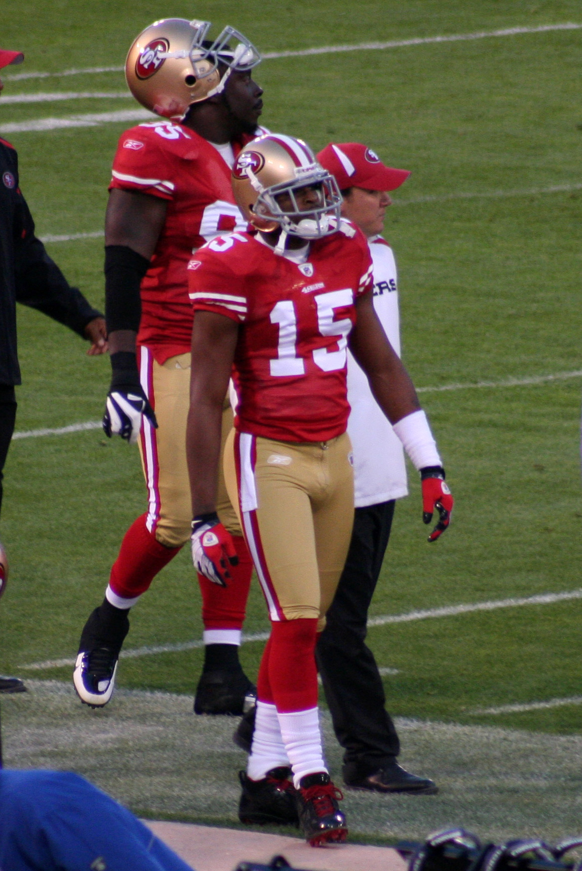 Michael Crabtree, wide receivers of the San Francisco 49ers